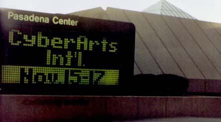 Billboard outside the Pasadena Center for the Second CyberArts International